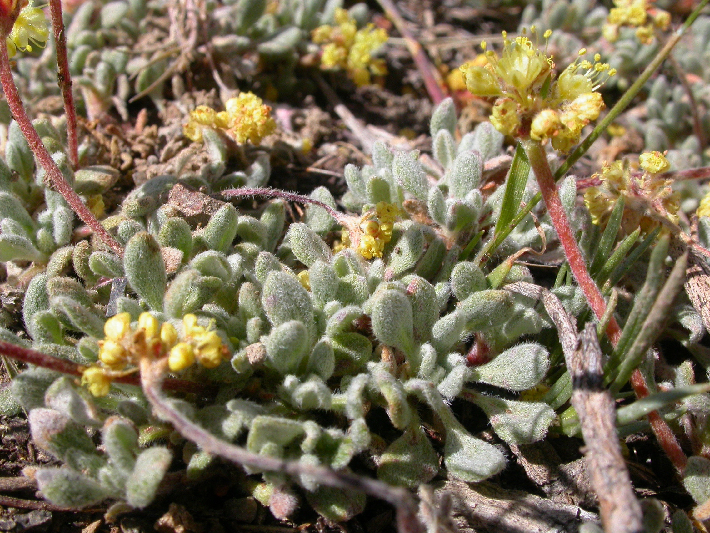 The leaves are often small matted and equally densely hairy on both surfaces.